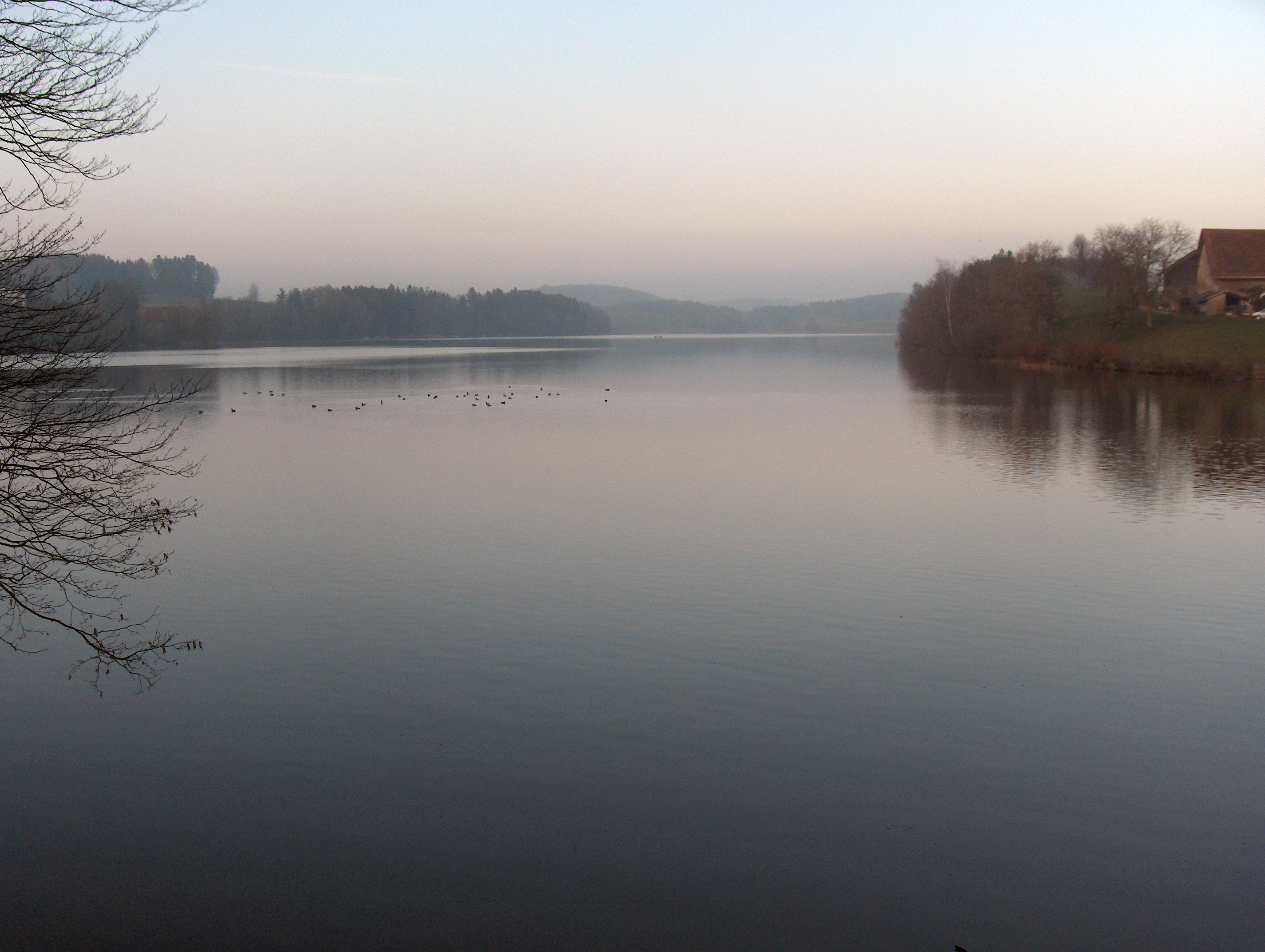 Lake Bret (Vaud, Switzerland) seen from its south shore.